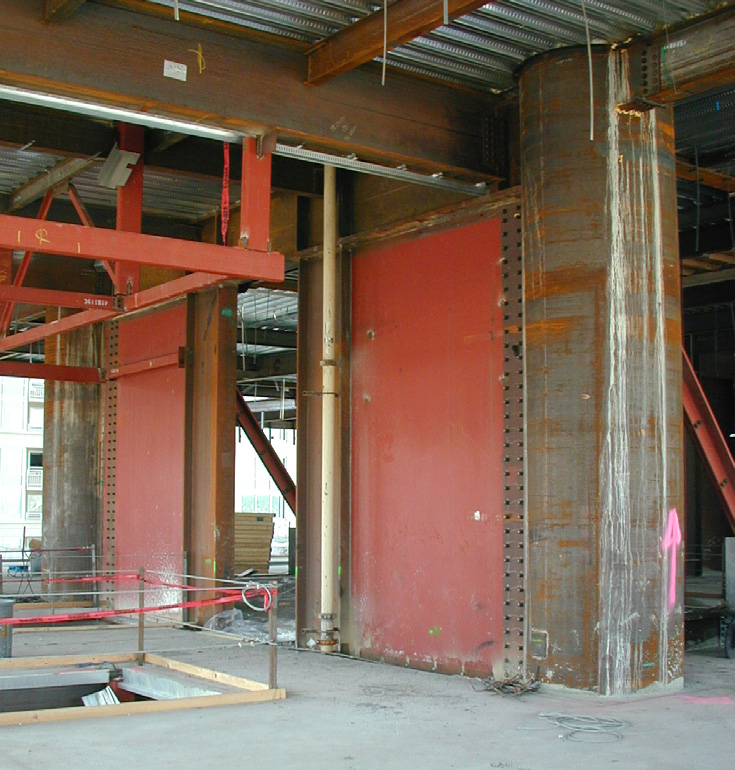 A steel plate shear wall (SPSW) consisting of steel infill plates bounded by a column-beam system